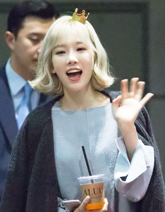 Taeyeon at Coex Artium in March 2016.